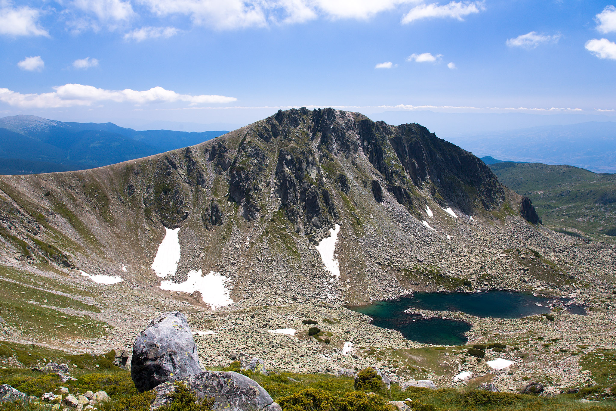 Spanopolski Chukar summit in Northern Pirin mountain, Bulgaria